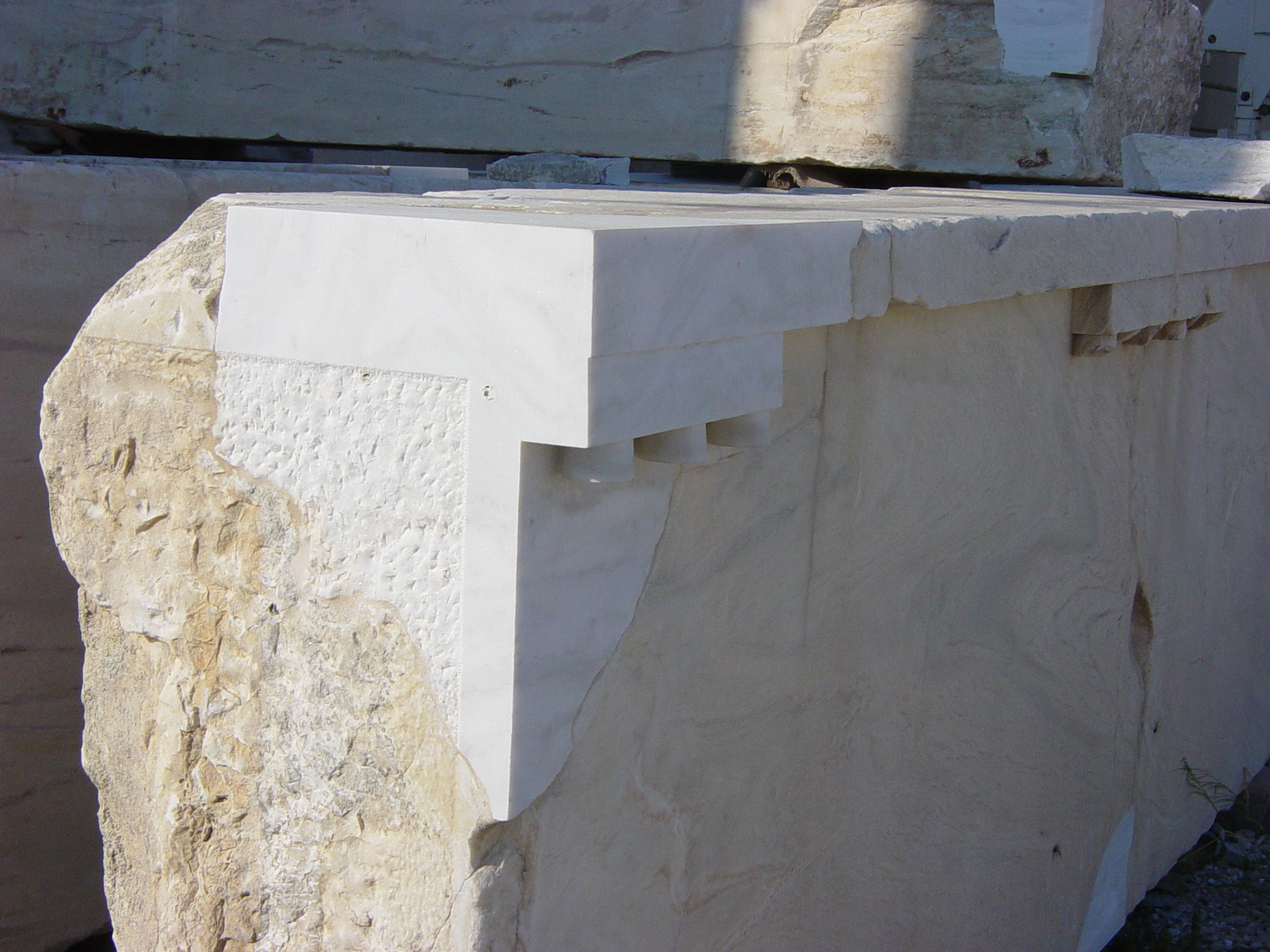 Closely fitted repair work